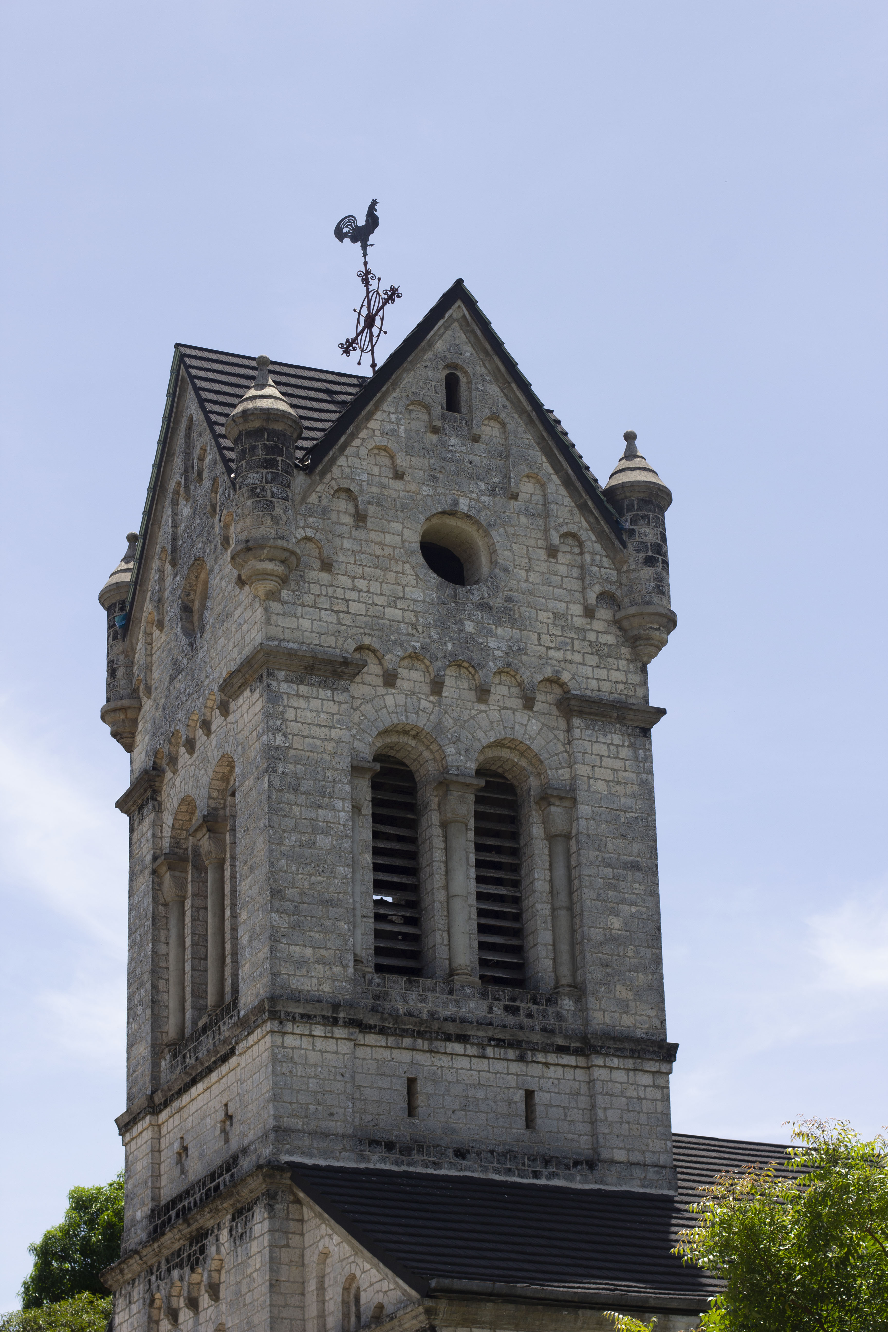 This photo has been taken in the country: Tanzania